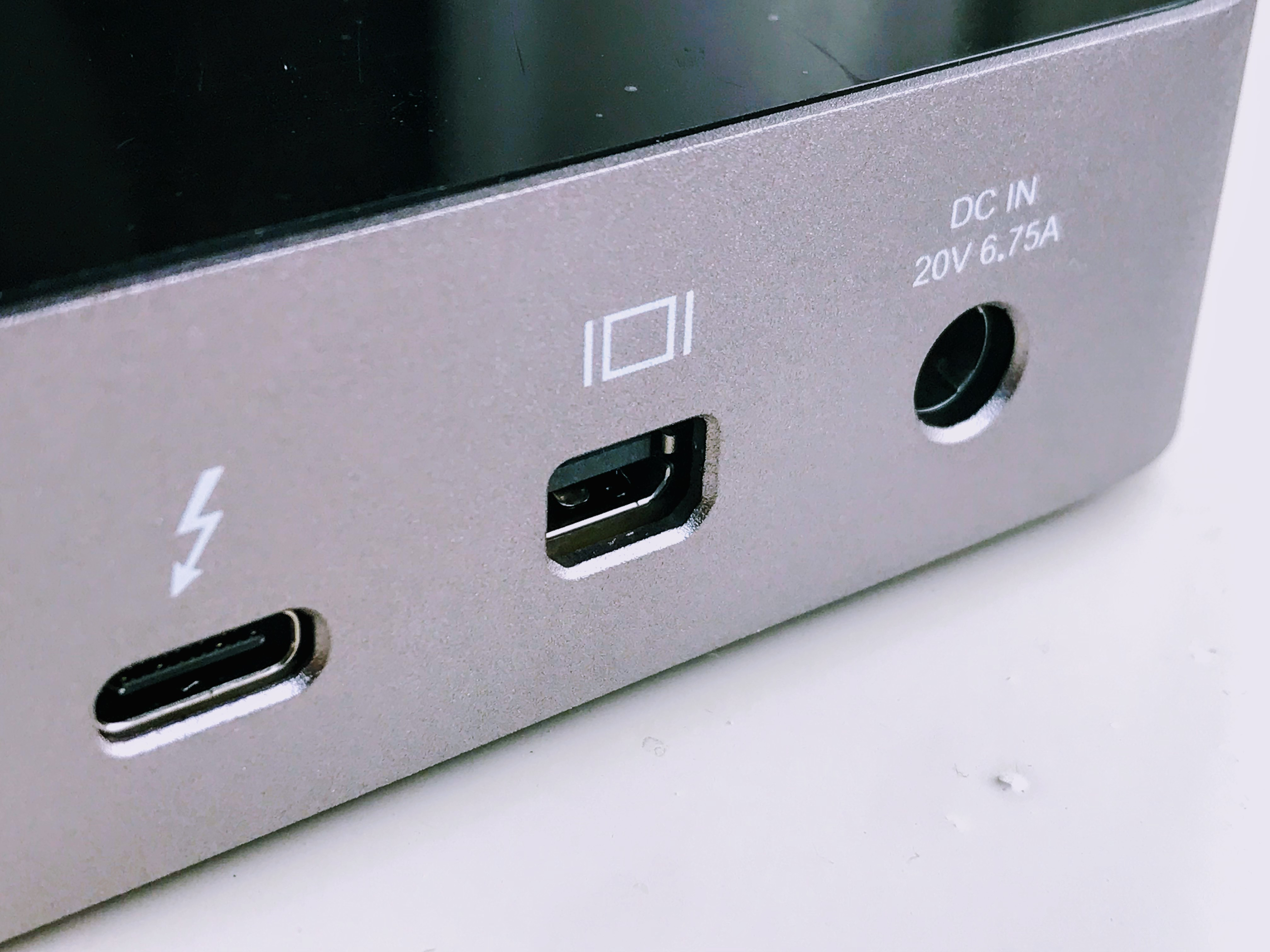 Mini Displayport logo icon